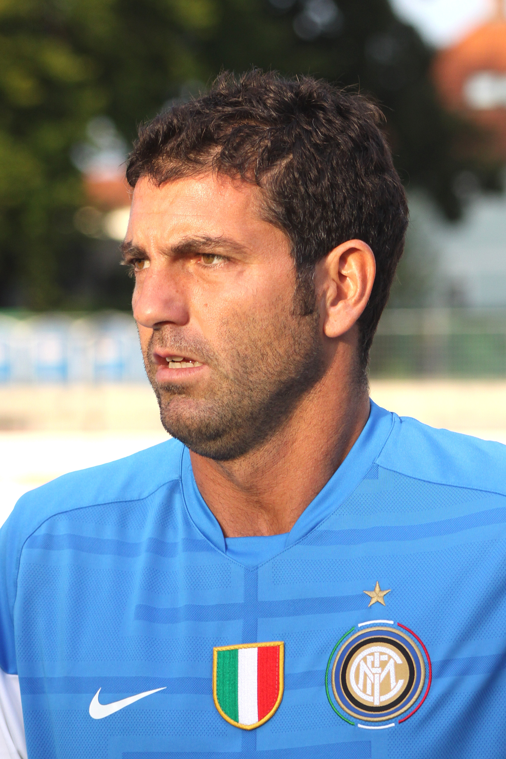 Paolo Orlandoni - F.C. Internazionale Milano.